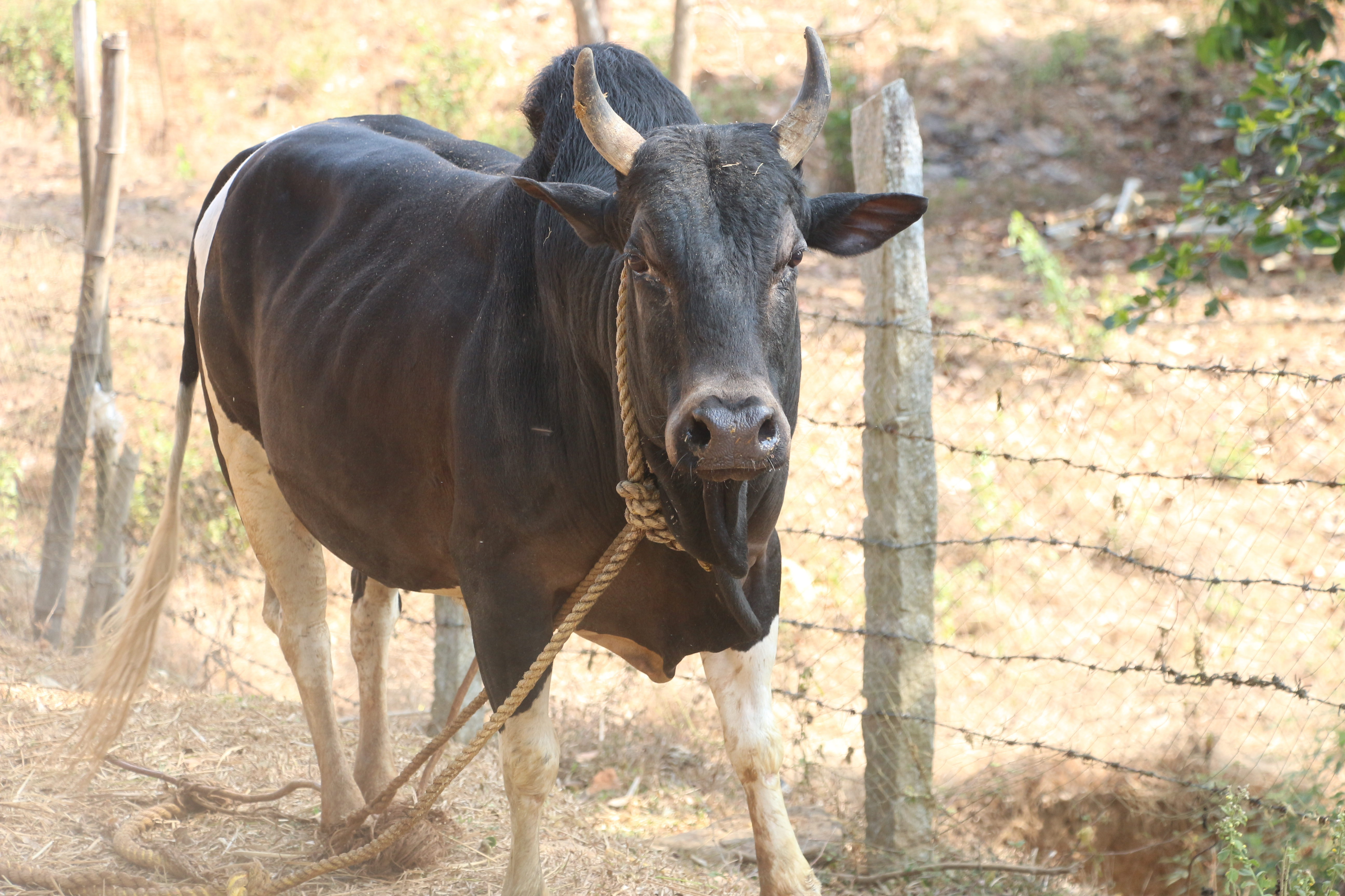 Indian cow breed Ponwar